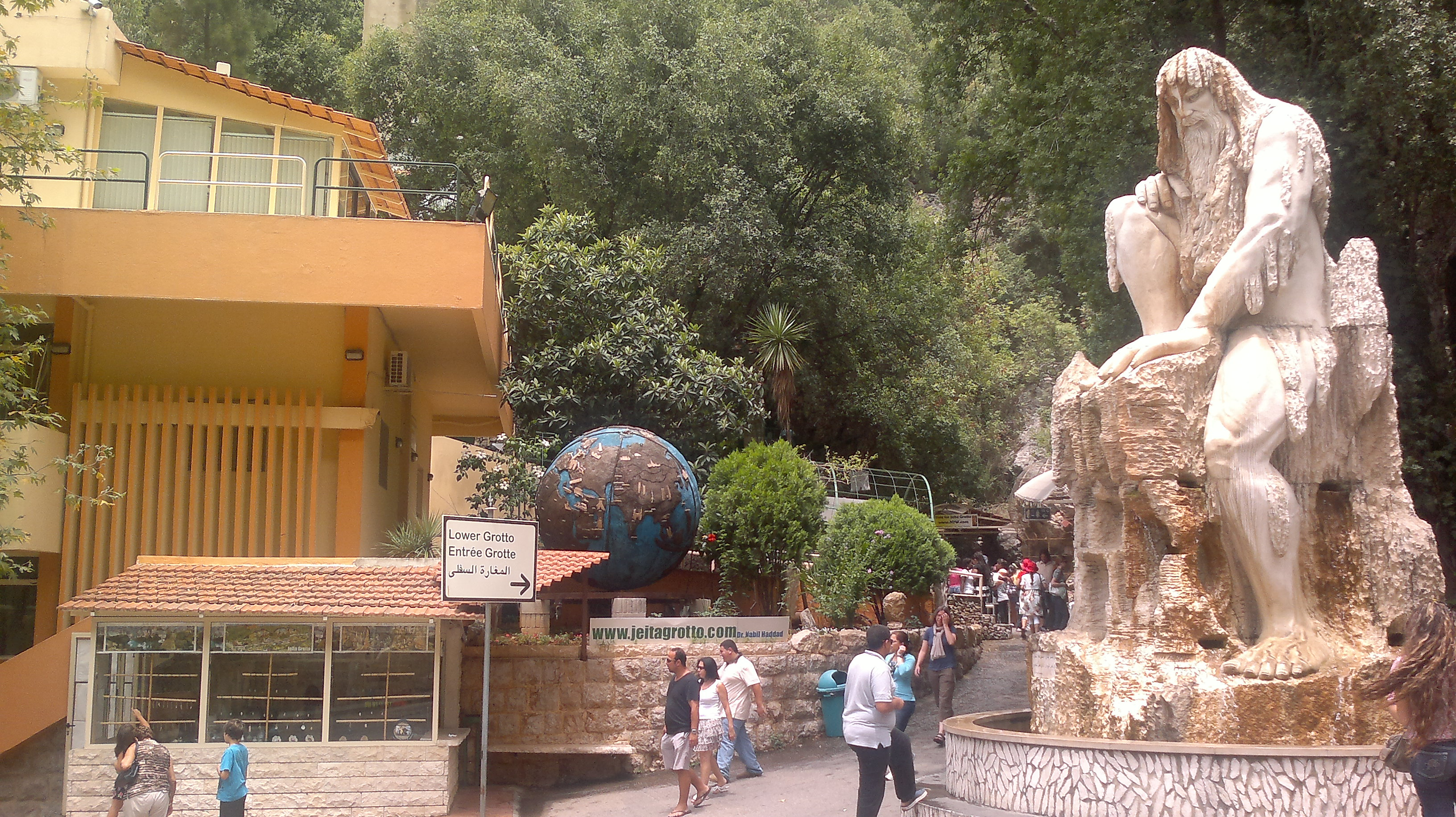 "Guardian of Time" sculpture by Lebanese artist Tony Farah, Jeita Grotto, Lebanon.